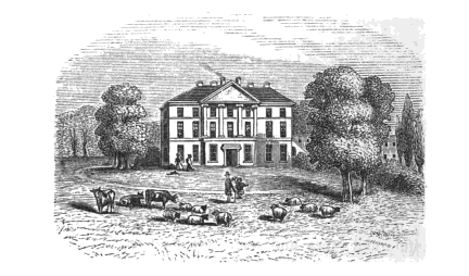 Engraving of Elmdon Hall, Warwickshire, England, from The Forest of Arden, its Towns, Villages, and Hamlets (1863) by John Hannett, p. 282.